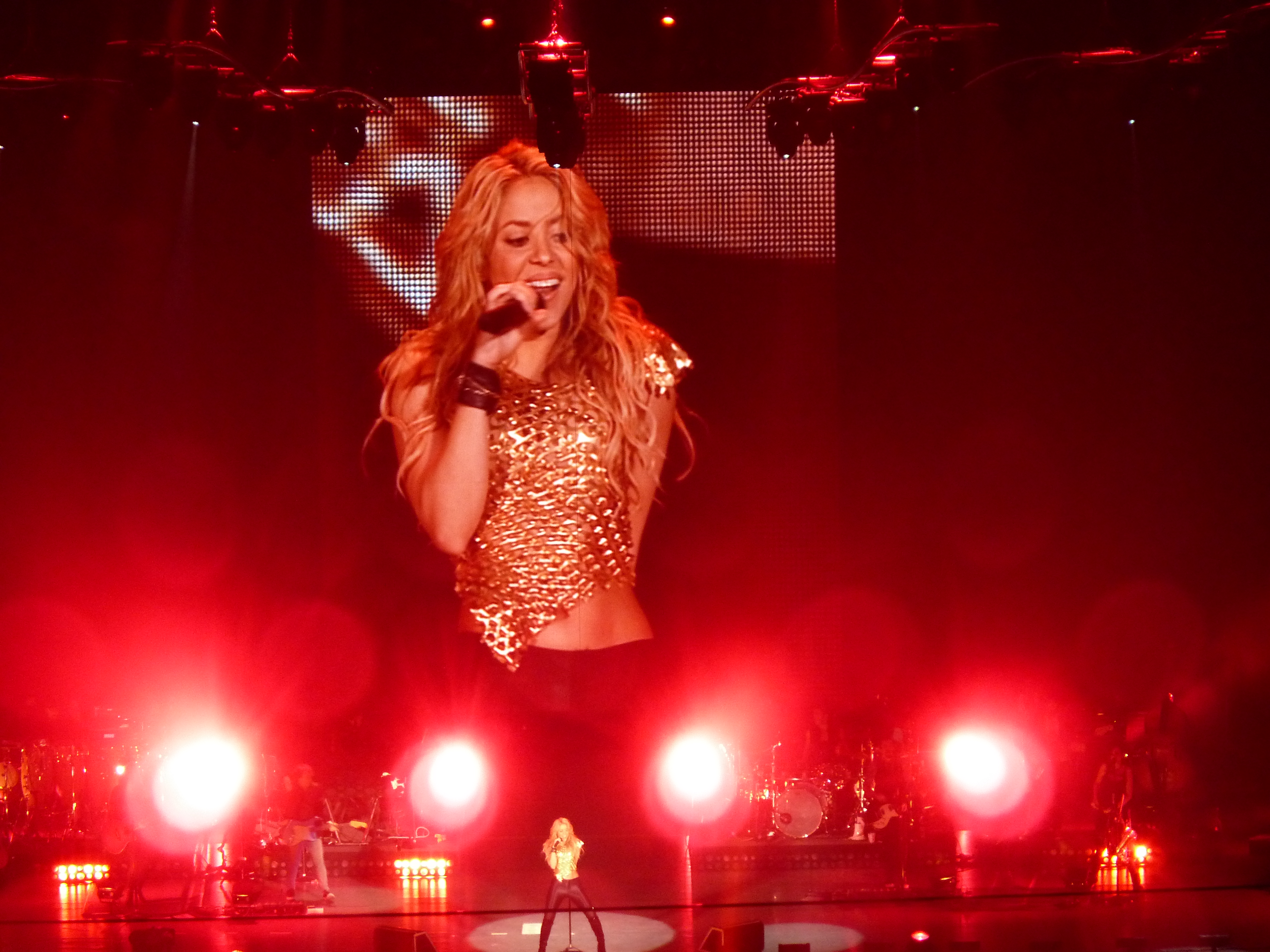 Shakira